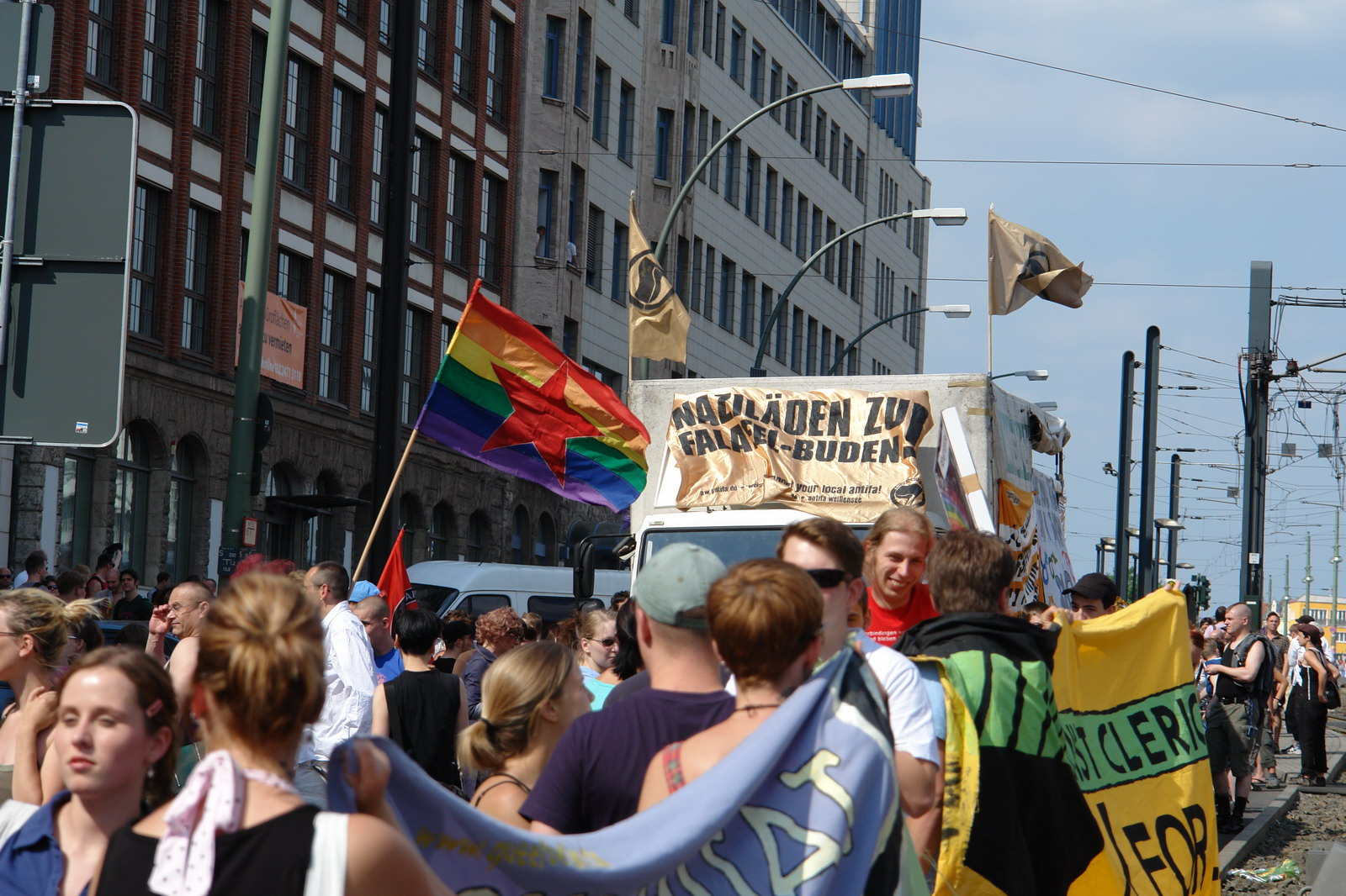 Alternative Pride March (Transgenialer CSD) in Berlin, 2006.